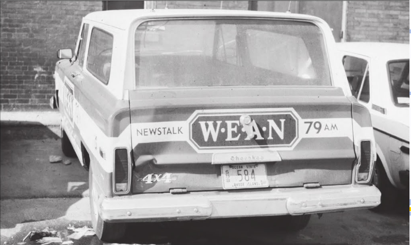 The 1978 Jeep Cherokee bought by the Providence Journal-Bulletin as the snowflakes fell during the "Blizzard of '78" and assigned to WEAN news. The logo reflects the migration to "Newstalk 79" from "Newsradio 79" following "All-News 79" WEAN imaging. Known affectionately as the WEANie Wagon.